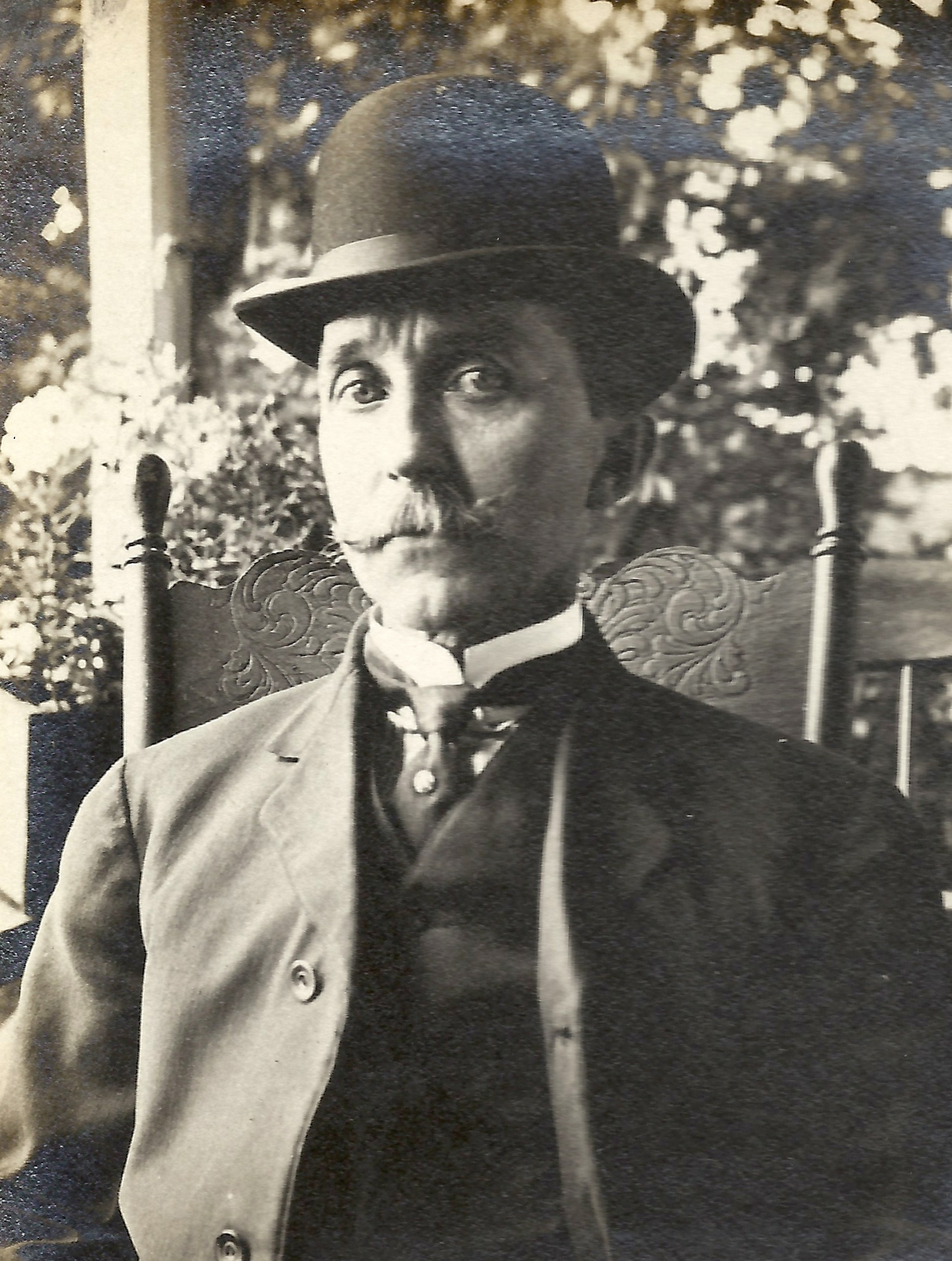 Portrait of Rudolph M. Hunter sitting on porch at a vacation house